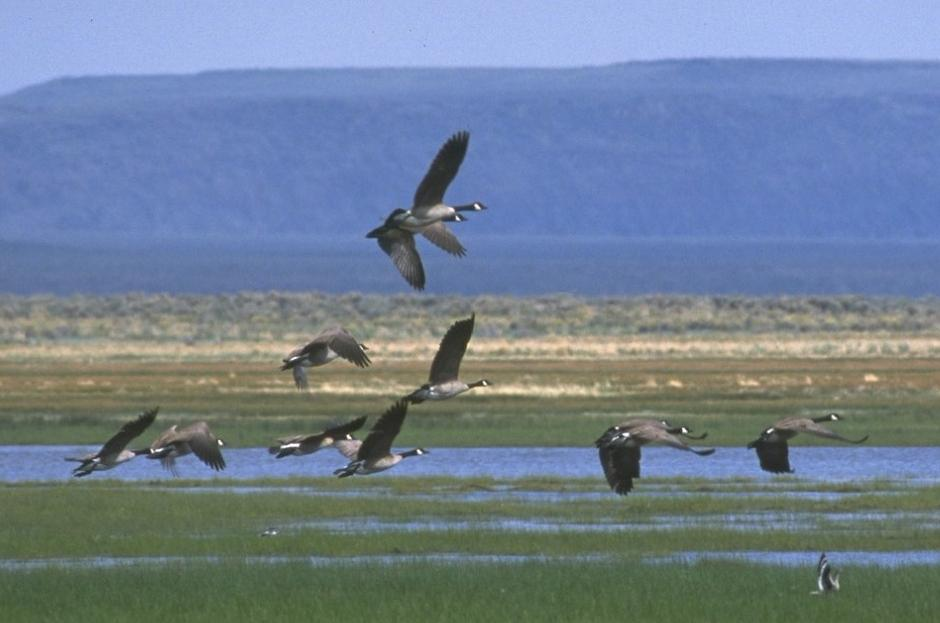 Canadian Geese taking off near Lakeview, Oregon